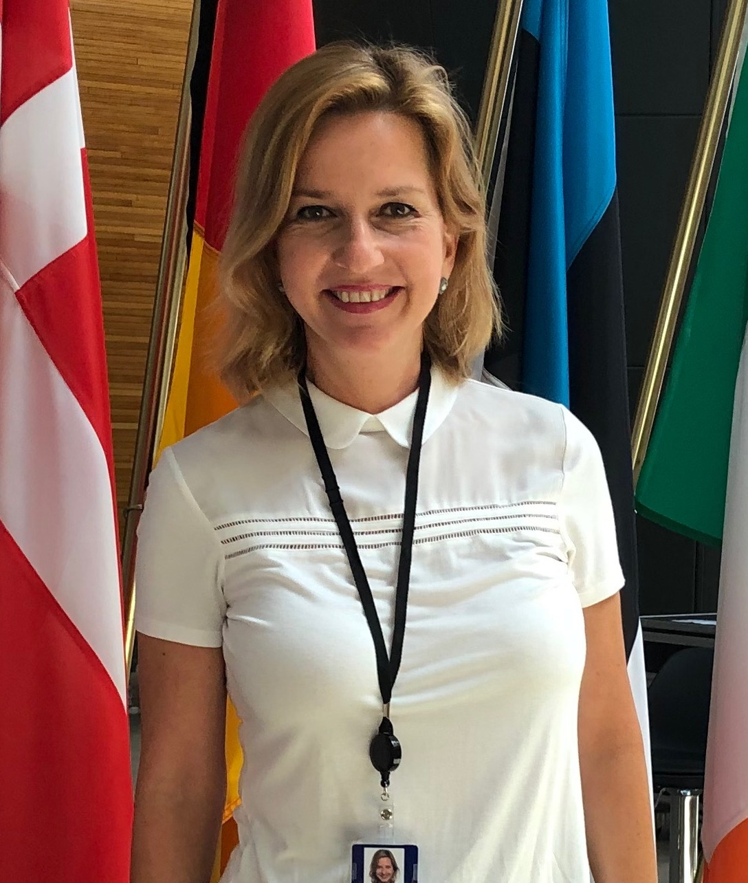 Liberal Democrat politician Irina von Wiese MEP stands in front of European flags in the European Parliament, Strasbourg.